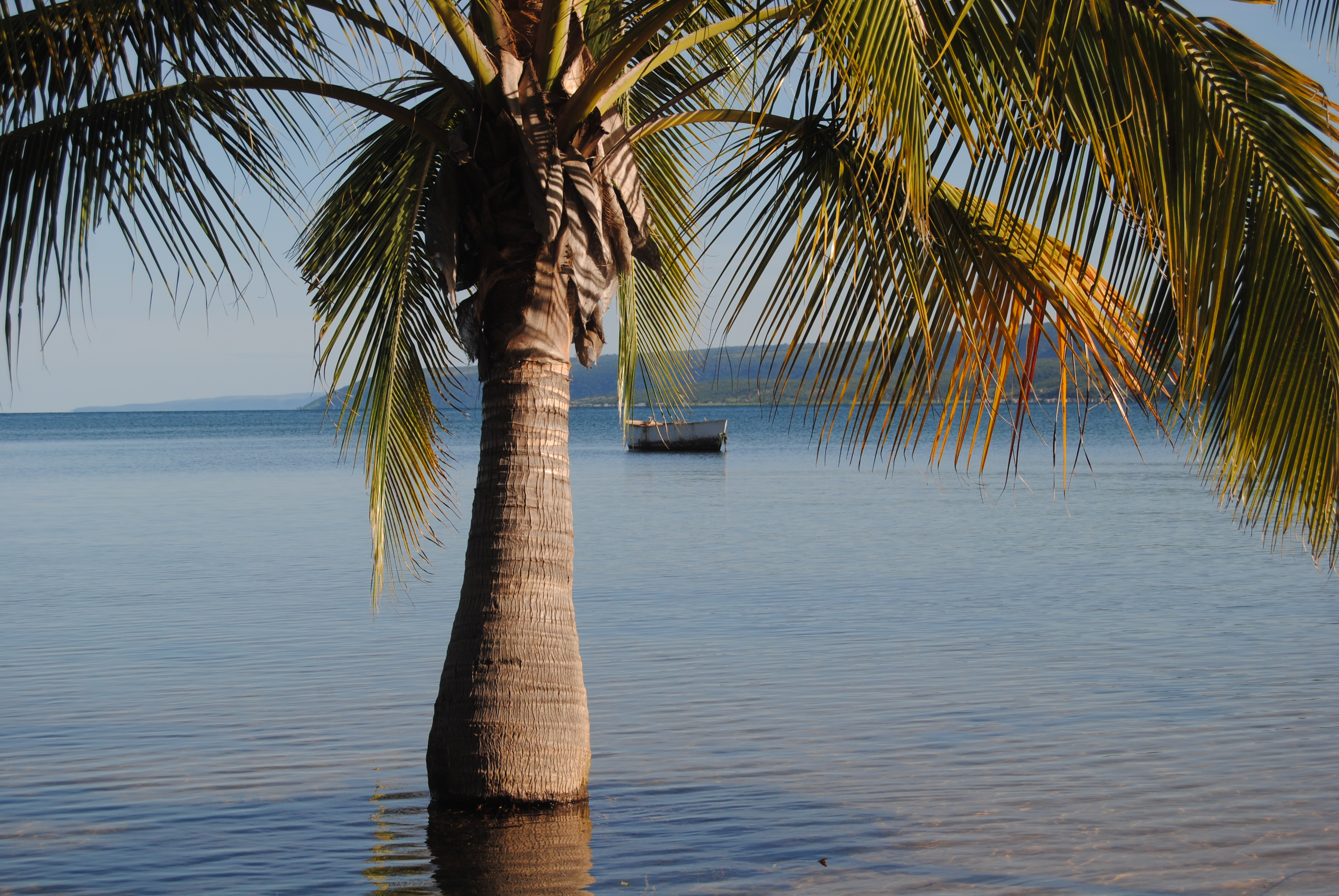 A Canoe is anchored a distance away from the coastline of Lake Tanganyika to protect it from waves. A long rope is tied to it and its end is tied outside the lake. The rope is used to pull it out whenever there's need for use. This is done in order to prevent it from damage when waves arise if it were to be left along the coastline. This is an image with the theme "Africa on the Move or Transport" from: Zambia